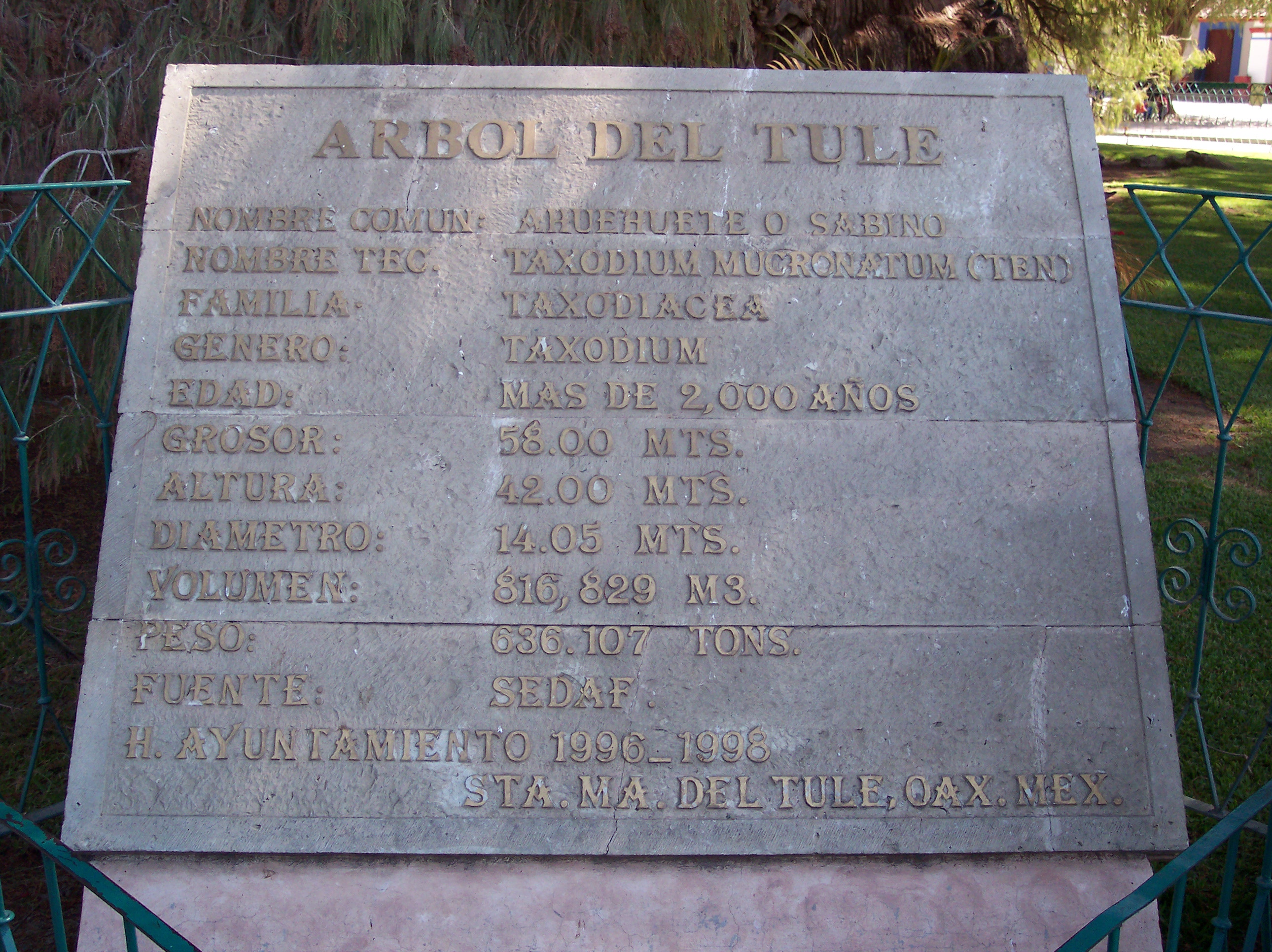 Signboard with prncipal data about the Tule Tree. Located in: Santa María del Tule, Oaxaca, Mexico.